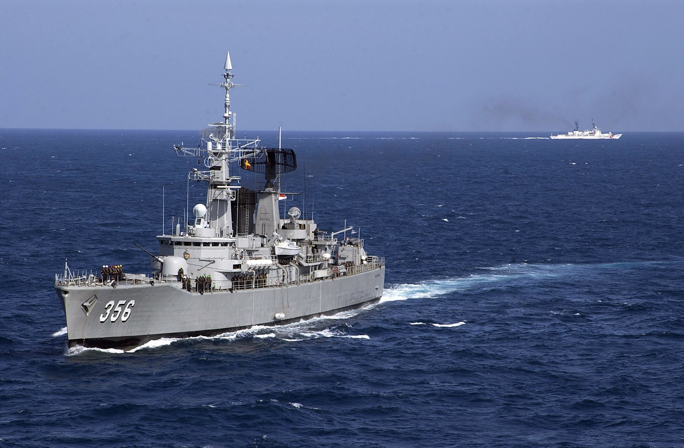 The Indonesian frigate KRI Karel Satsuit Tubin (KST 356) operates with USCG Cutter Sherman (WHEC 720) during a maneuvering event as part of the at-sea phase of exercise Cooperation Afloat Readiness and Training (CARAT) Seven U.S. and Indonesian Navy ships are operating together. CARAT is an annual series of bilateral maritime training exercises between the United States and six Southeast Asia nations designed to build relationships and enhance the operational readiness of the participating forces.